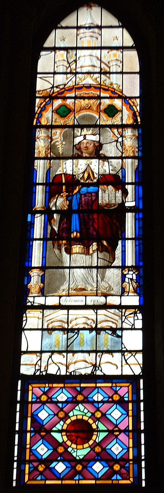 A closeup of one of York Minster's many beautiful stained-glass windows. This one depicts King Solomon.